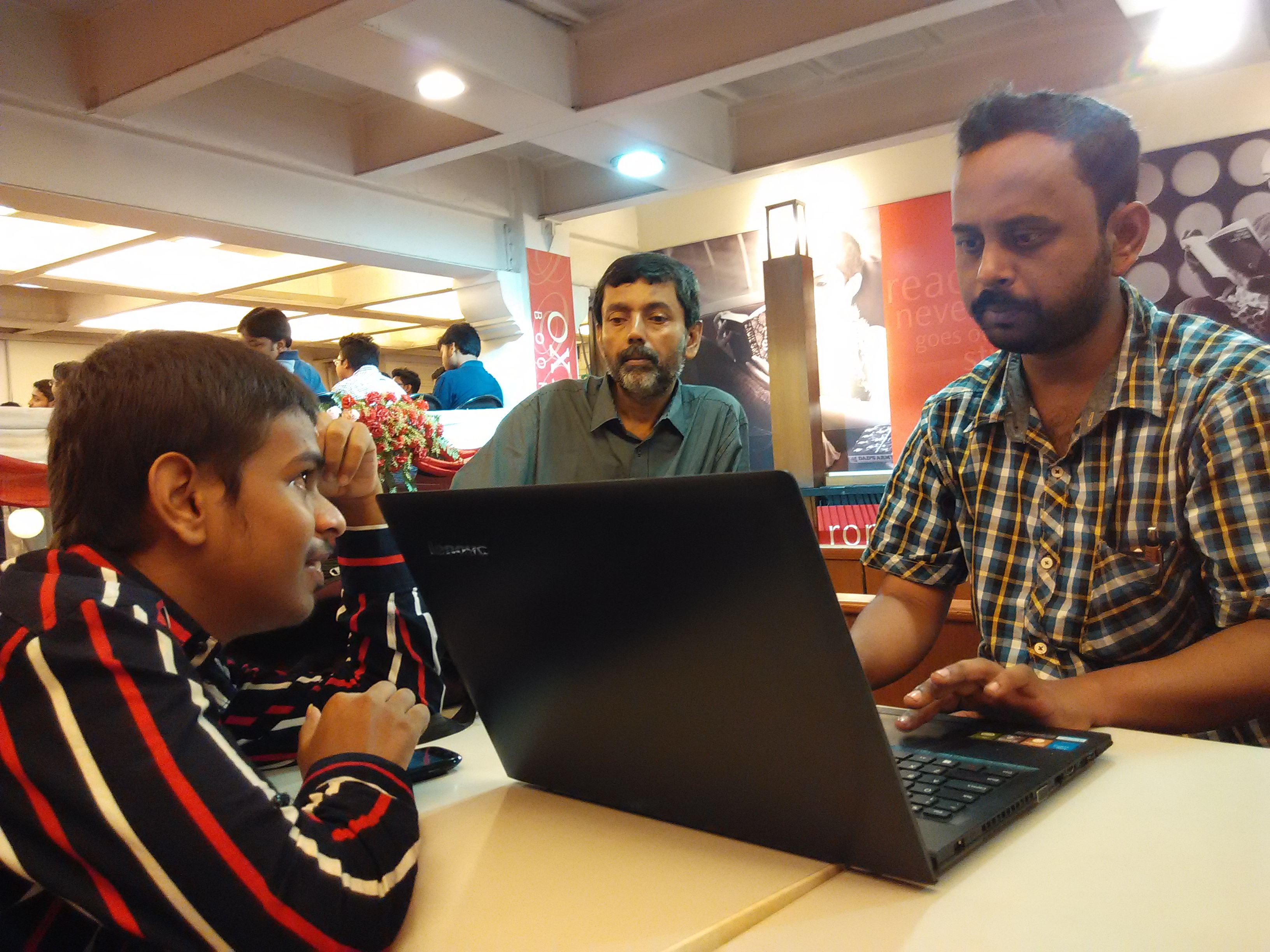 senior editor mentoring junior editor at Wiki gathering at Apeejay Bangla Sahitya Utsab 2015